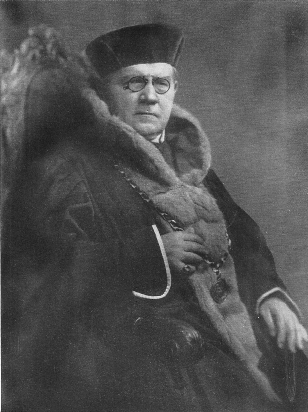 Chancelor of the Charles University in Prague till 1932.